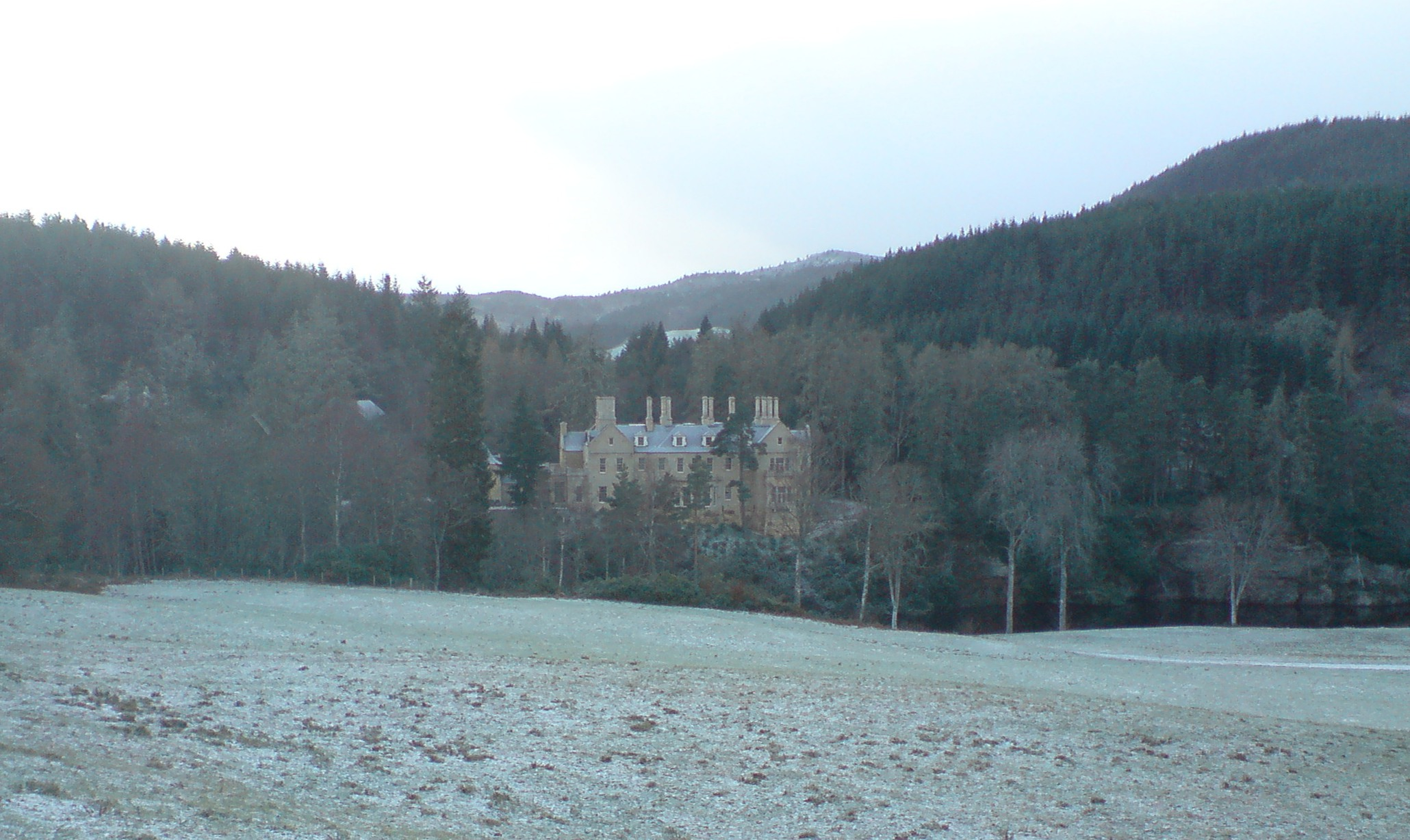 View of Eilean Aigas House, a mansion on an island in the River Beauly, in the Highlands of Scotland. Photo taken from up the slope on the east side of the river.